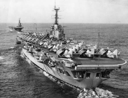 Sourced from: Copyright: The AWM record for this photo states that the copyright status is 'clear'. The AWM allows the use of images from its online database whose copyright has expired for non-commercial purposes only on the condition that the AWM's watermark is not removed. Higher resolution images may be ordered through the AWM (Source: email from the AWM to Nick Dowling 6 January 2006). AWM Caption: 1956-05. AERIAL STERN VIEW OF THE AIRCRAFT CARRIER HMAS MELBOURNE (II) ON HER DELIVERY VOYAGE. SHE IS FOLLOWING HMAS SYDNEY (III). SEA VENOM AIRCRAFT ON THE FORE DECK AND GANNET AIRCRAFT ON THE AFT DECK ARE BEING TRANSPORTED AS DECK CARGO. NOTE THE TWIN 40 MM BOFORS MARK 5 AA GUNS, THEIR CLOSE RANGE BLIND FIRE DIRECTORS AND THE MIRROR LANDING GEAR ALL SPONSONED OUT FROM HER PORT SIDE. HER RADIO AERIAL BOOMS ARE IN THE VERTICAL POSITION. (NAVAL HISTORICAL COLLECTION) The copyright has expired on this image. The AWM, however, requires that the AWM watermark is not removed. Higher resolution versions of this image may be ordered through the AWM Website at